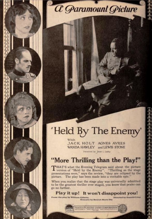 Advertisement for the American silent Civil War melodrama film Held by the Enemy (1920) with Agnes Ayres, Jack Holt, Wanda Hawley, Lewis Stone, and Josephine Crowell, on page 4 of the October 16, 1920 Exhibitors Herald.